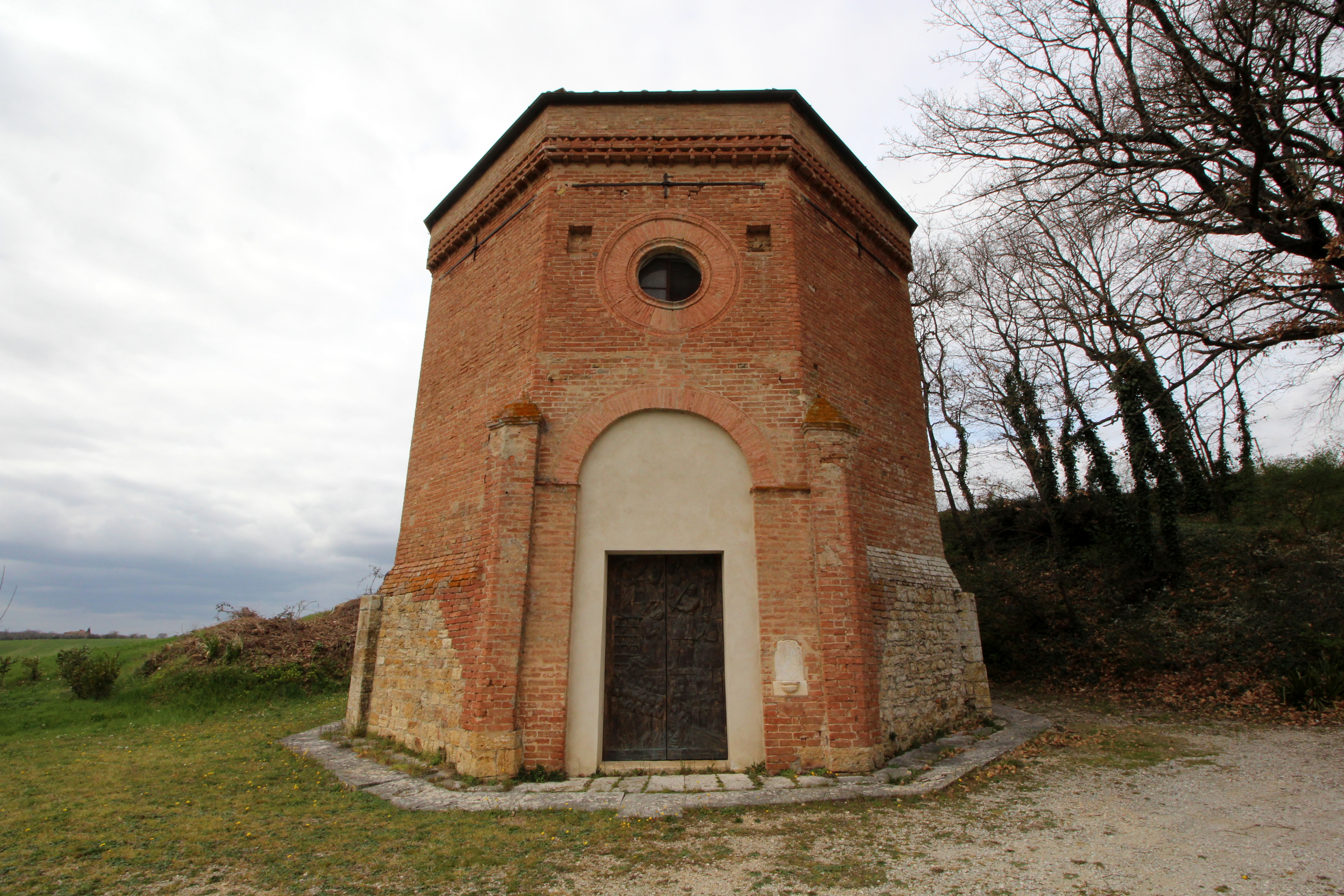 Chapel Cappella di Sant'Ansano a Dofàna (also called Tempio di Sant'Ansano or Oratorio di Sant'Ansano), Casetta, hamlet of Castelnuovo Berardenga, Province of Siena, Tuscany, Italy